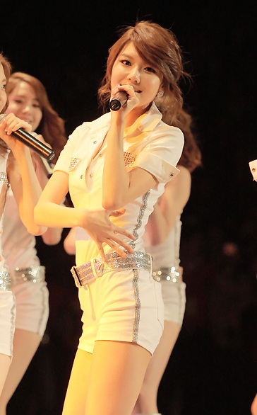 Sooyoung at Hanyang University Festival on May 17 2011.